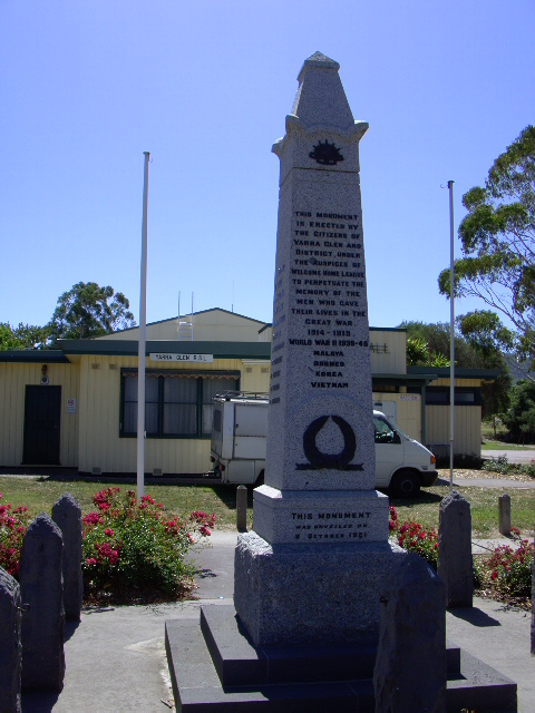 World War 1 wea war memorial, Yarra Glen, Victoria